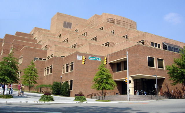 Hodges Library, UT Knoxville